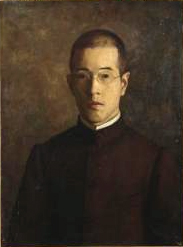 Self-portrait, by Yamashita Shintaro, University Art Museum, Tokyo University of the Arts, Tokyo, Japan